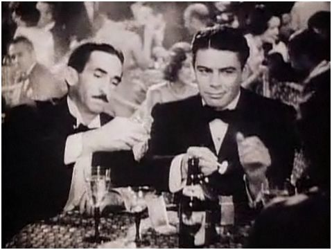 Osgood Perkins (left) & Paul Muni - cropped screenshot from the trailer for the 1932 film Scarface.